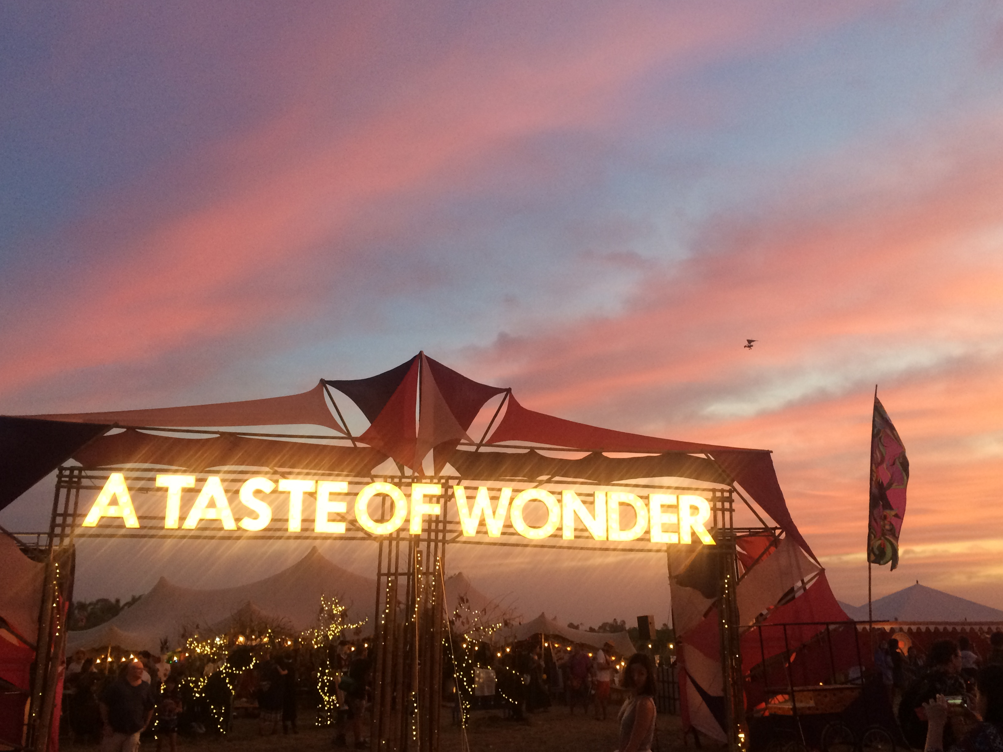 Sunset view of a gate reading "A Taste of Wonder" at the 2015 Wonderfruit festival in Pattaya, Thailand